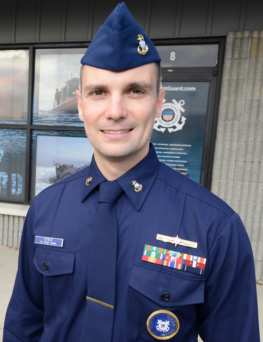 U.S. Coast Guard Recruiter, Chief Petty Officer Nick Scheck, wearing the Winter Dress Blue uniform with garrison cap